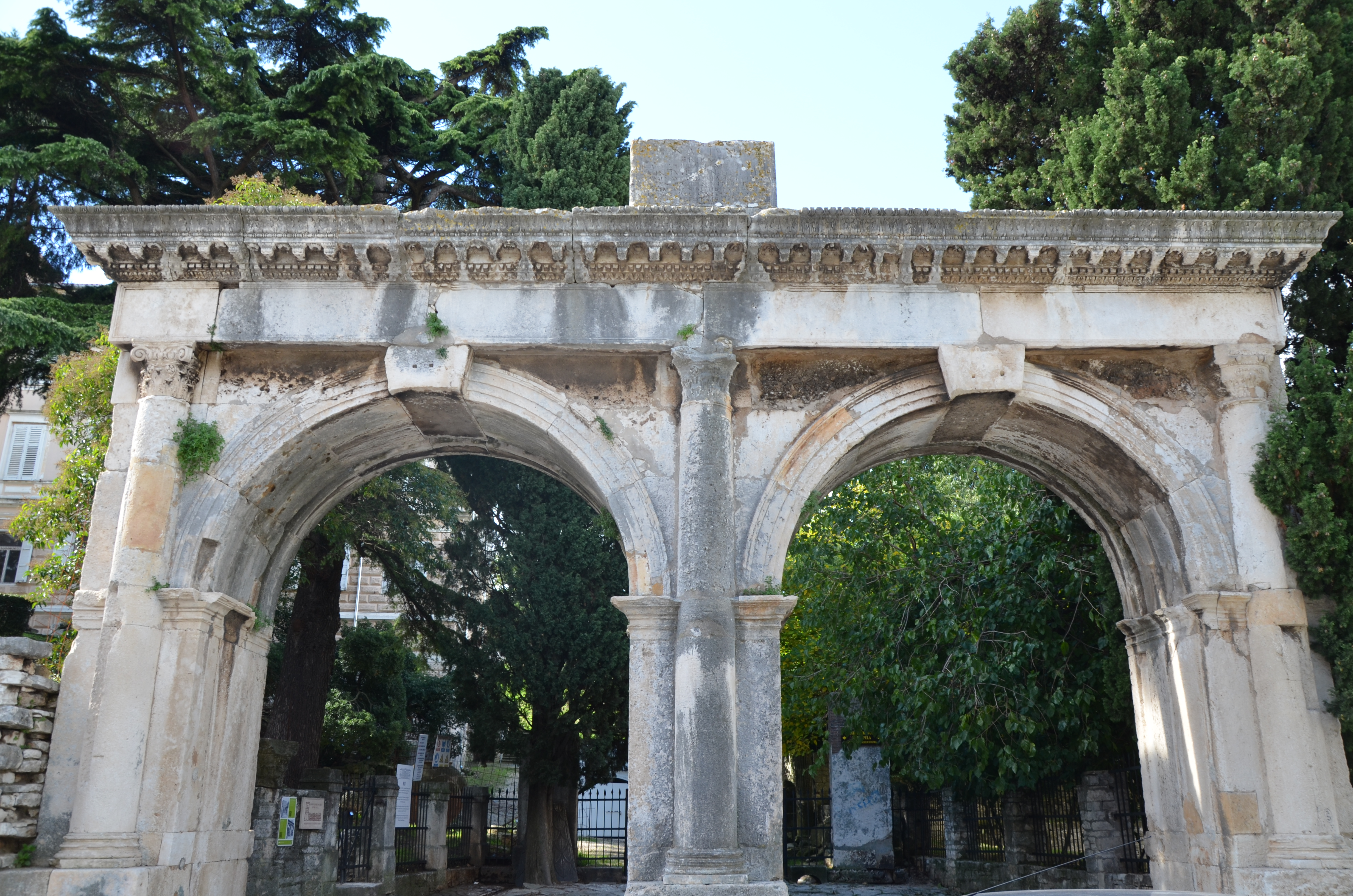 The Twin Gates (Porta Gemina), Colonia Pietas Iulia Pola Pollentia Herculanea, Histria